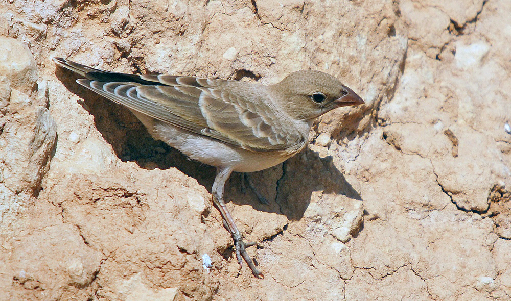 Pale Rockfinch in southeastern Turkey Kurdî: Lİ Mêrdîn hatiye kişandin.